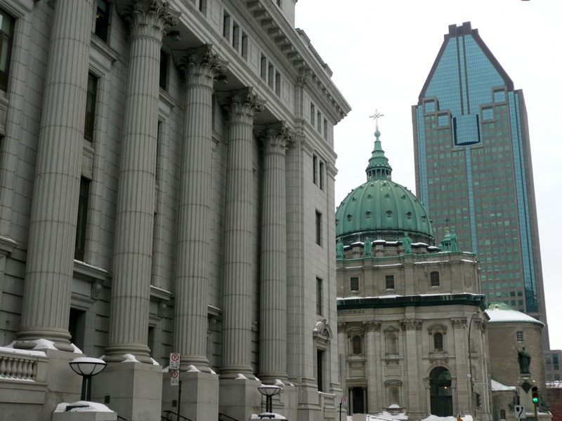 The Cathedral-Basilica of Mary, Queen of the World (French: Cathédrale Marie-Reine-du-Monde) in Montreal, Quebec, Canada, is the seat of the Roman Catholic archdiocese of Montreal. It is the third largest church in Quebec after St. Joseph's Oratory (also in Montreal) and the Basilica of Sainte-Anne-de-Beaupré east of Quebec City. The church is located at 1085 Cathedral Street at the corner of René Lévesque Boulevard and Metcalfe Street, near the Bonaventure metro station and Central Station in downtown Montreal.